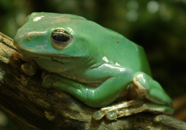 Chinese Gliding Frog (Rhacophorus dennysi), 2008 frog exhibit at National Geographic Museum, Washington, DC